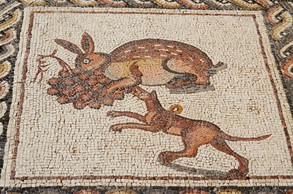 Hare is eating grapes, Roman tessera mosaic of Lod, Israel